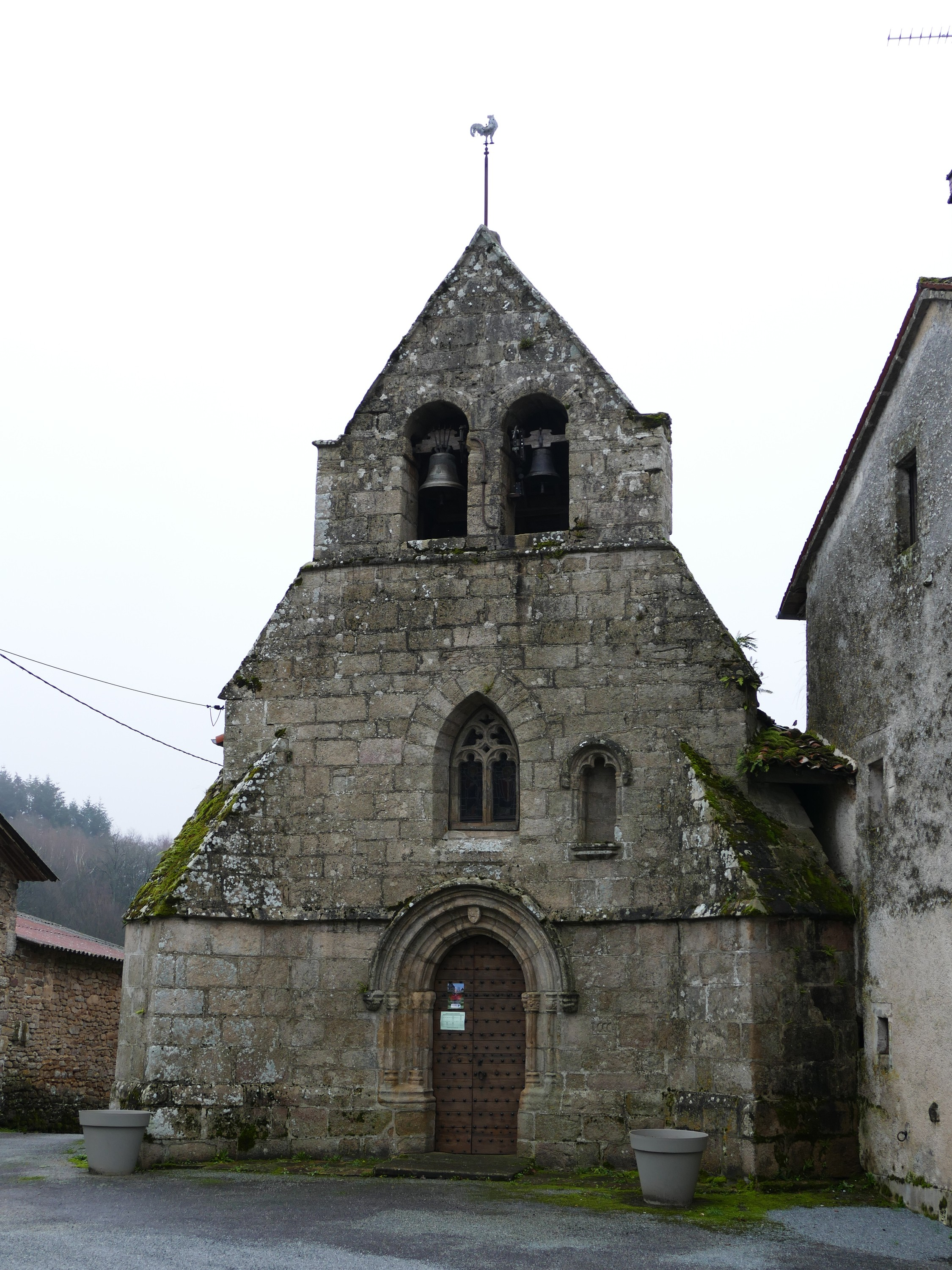 Saint-Symphorien's church in Saint-Symphorien-sur-Couze (Haute-Vienne, Limousin, France).